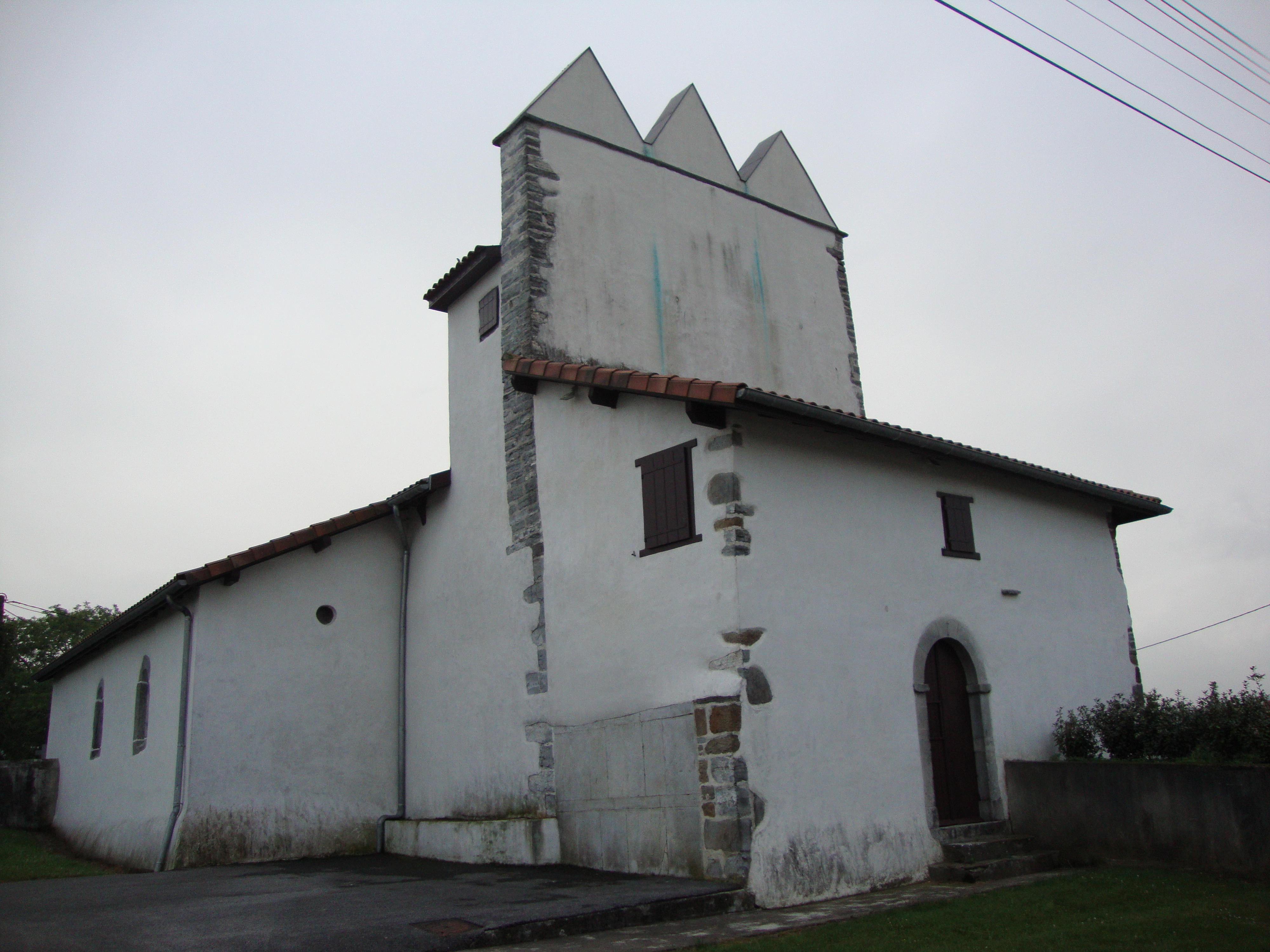 Berraute (Domezain-Berraute, Pyr-Atl, Fr) trinitarian church.